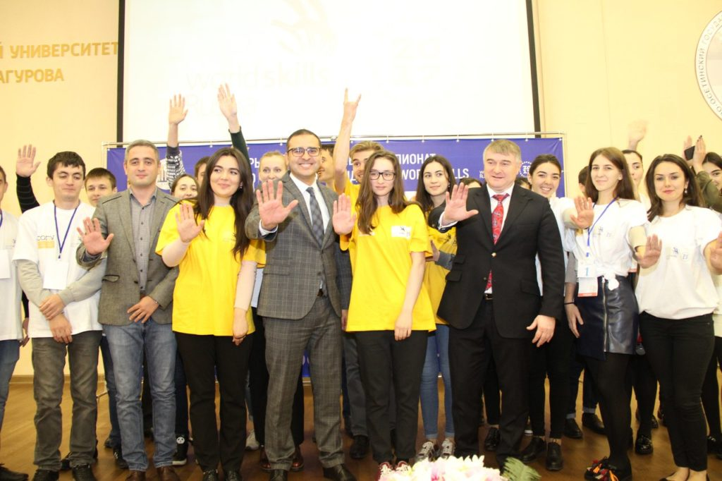 Региональный чемпионат «Молодые профессионалы» (WorldSkills) в СОГУ